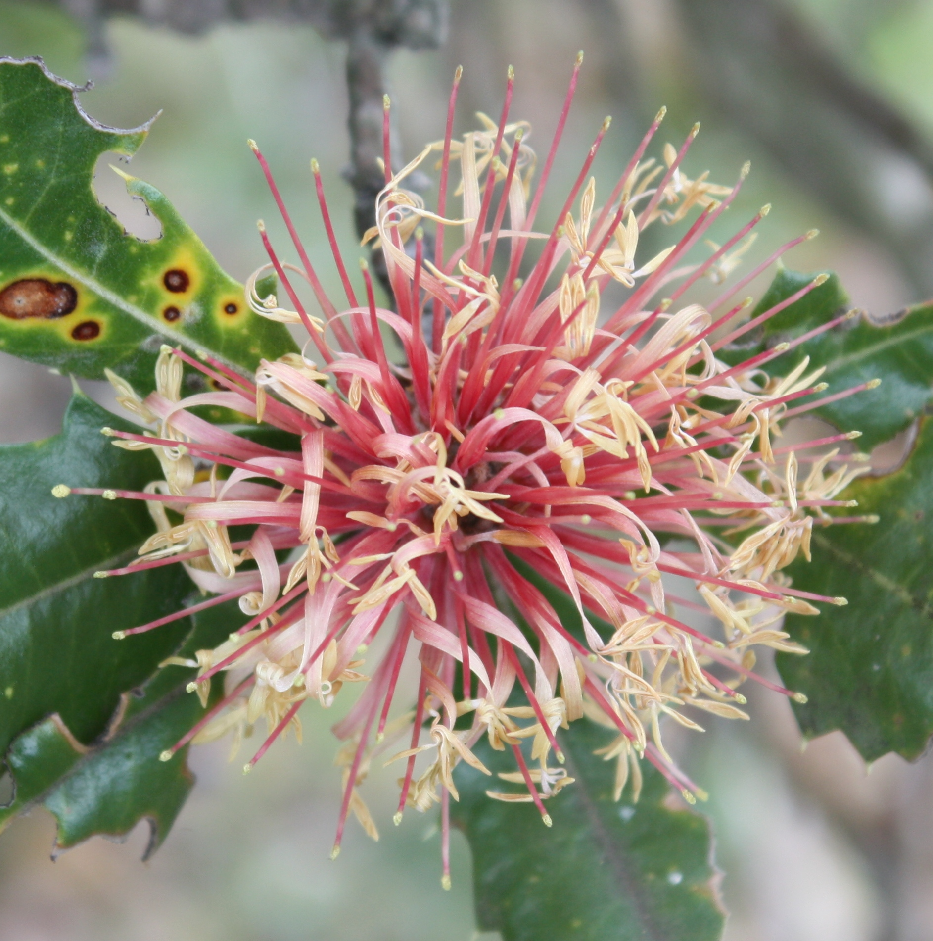 inflorescence of Banksia ilicifolia, Beeliar Regional Park east of North Lake, Perth, Western Australia